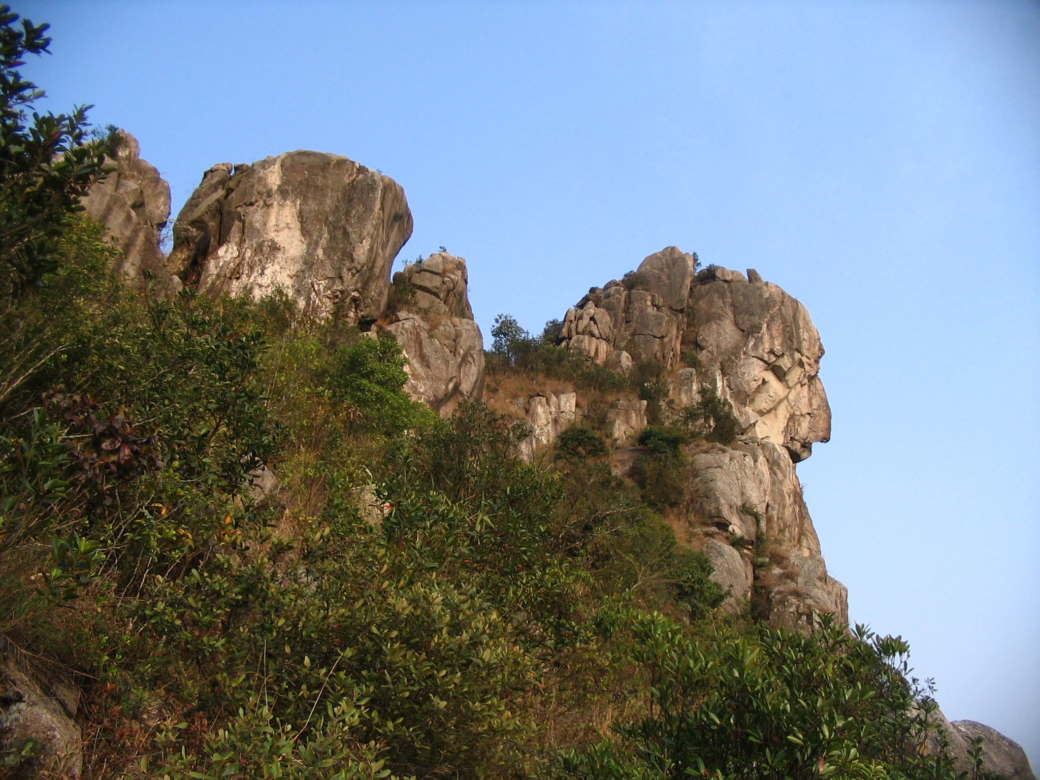 Photo of Lion Rock